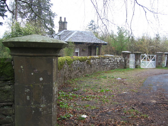 Gatehouse, Abercairny